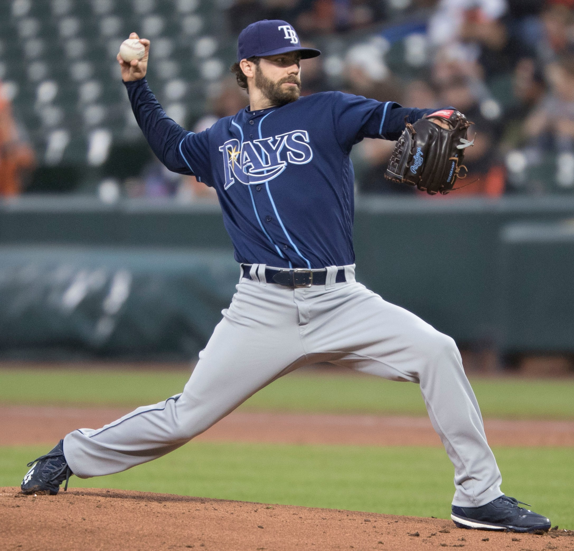 Austin Pruitt of the Tampa Bay Rays pitches against the Baltimore Orioles in a game at Oriole Park at Camden Yards on April 25, 2017 in Baltimore, Maryland.